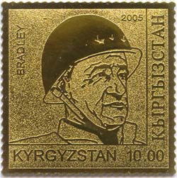 Stamp of Kyrgyzstan